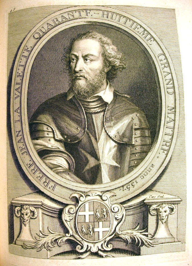 Portrait of Jean de la Valette, entitled FRERE JEAN LA VALETTE QUARENTE-HUITIEME GRAND MAITRE